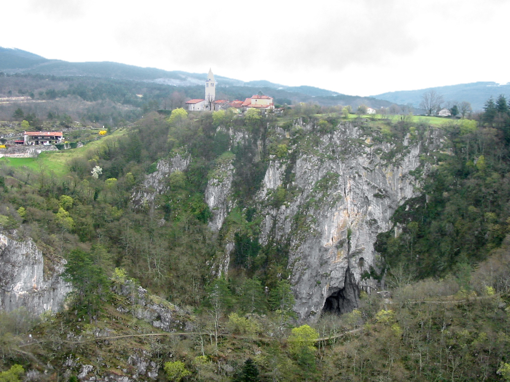 Village Skocjan, Divača, Slovenia. River Reka; resurges twice from under the Karst rockformations. In front below: View into first of 2 huge collapsed parts of cave Skocjanske jame (Mala Dolina). River and cave are under UNESCO World Heritage Sites protection.